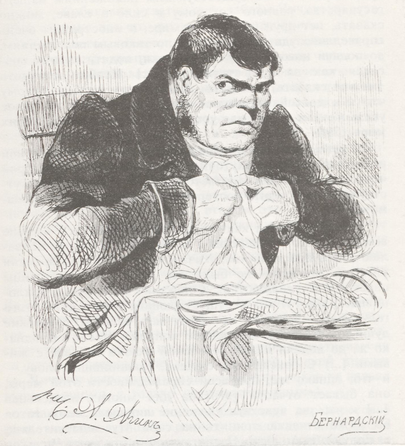 Sobakevich. Illustration for Nikolai Gogol's Dead Souls